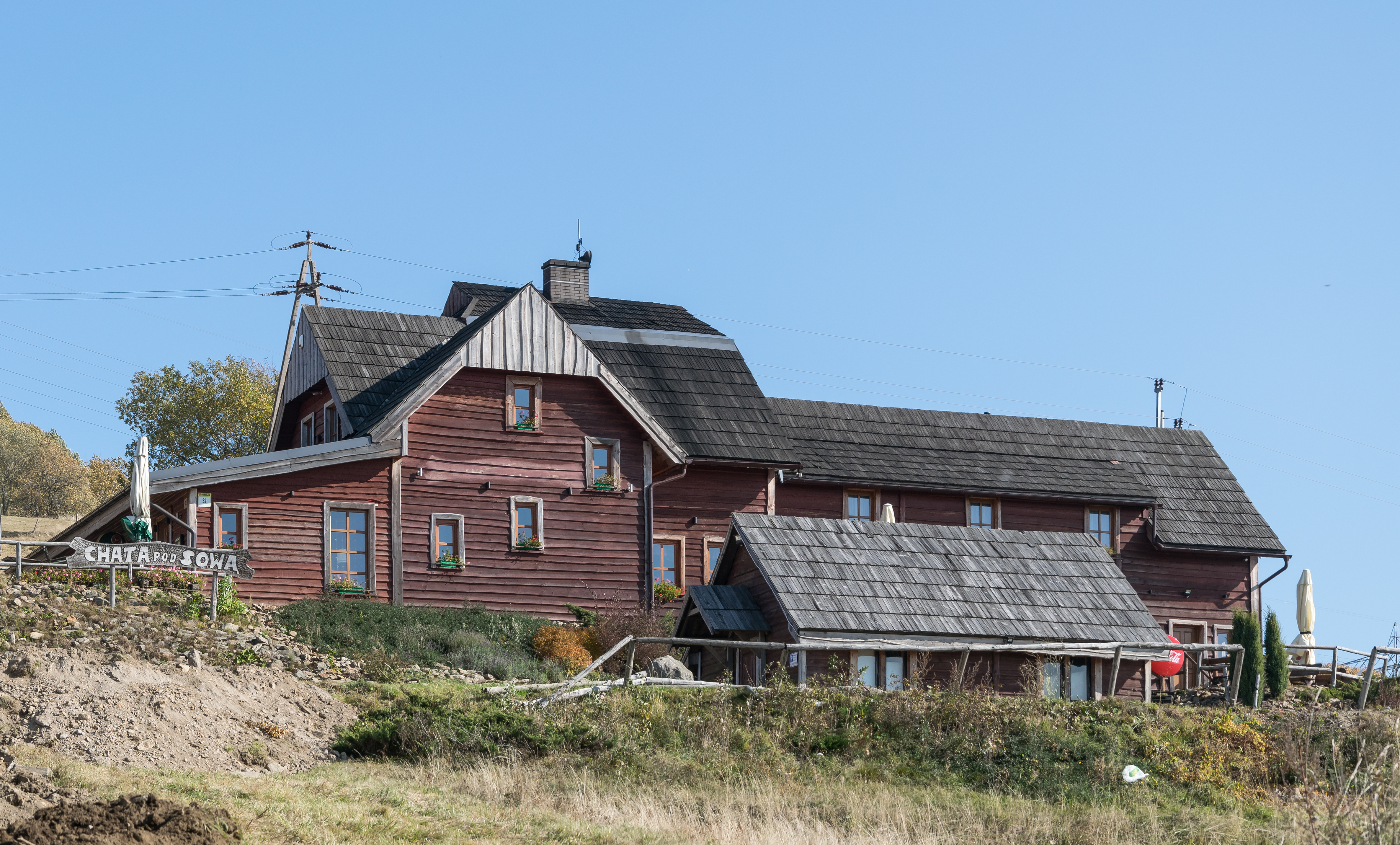 Chata Pod Sową in Sokolec